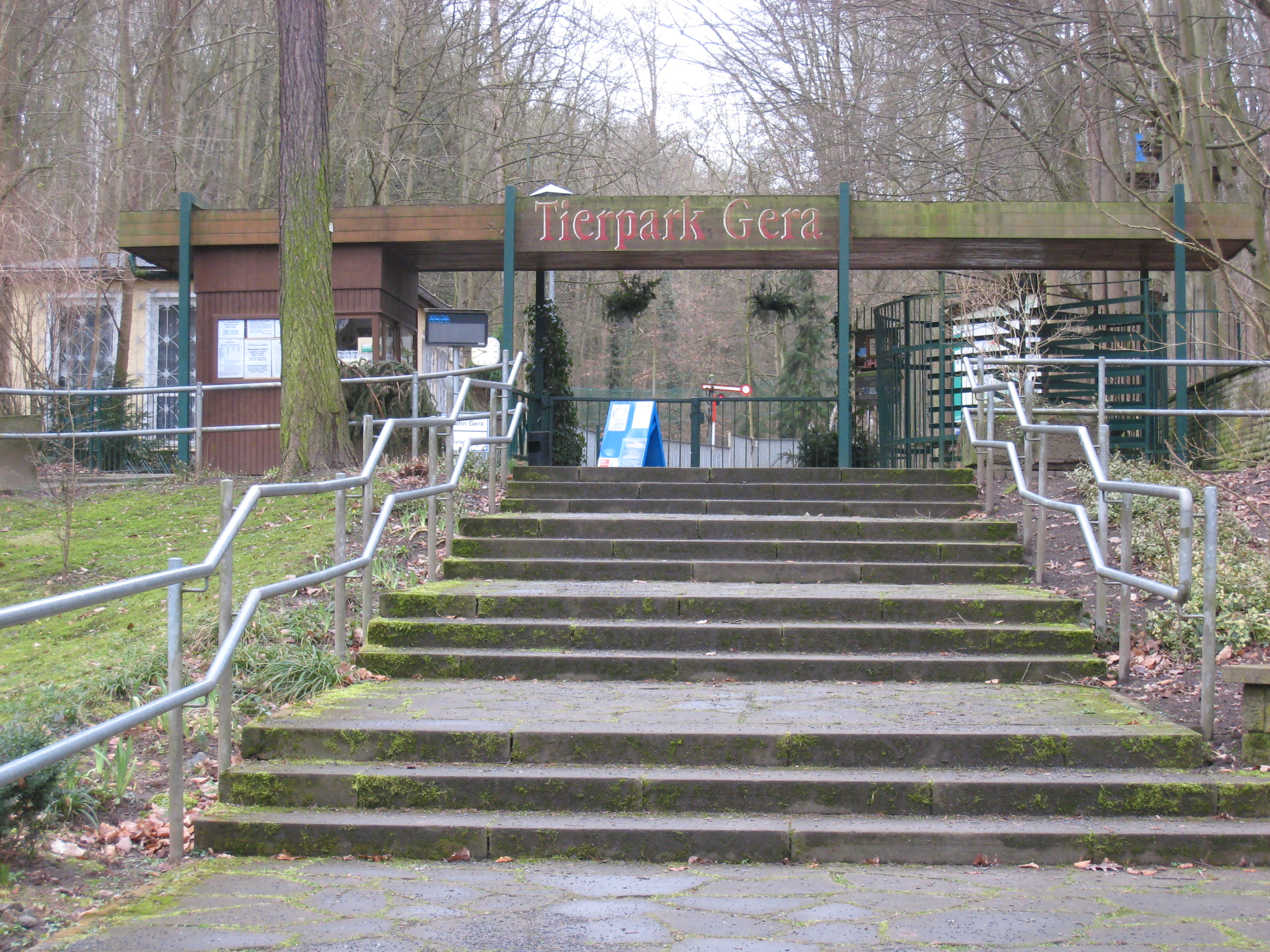 Zoo of Gera, entrance